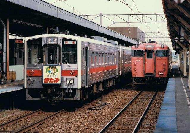 Kiha54 "Kitami" Limited Rapid train.